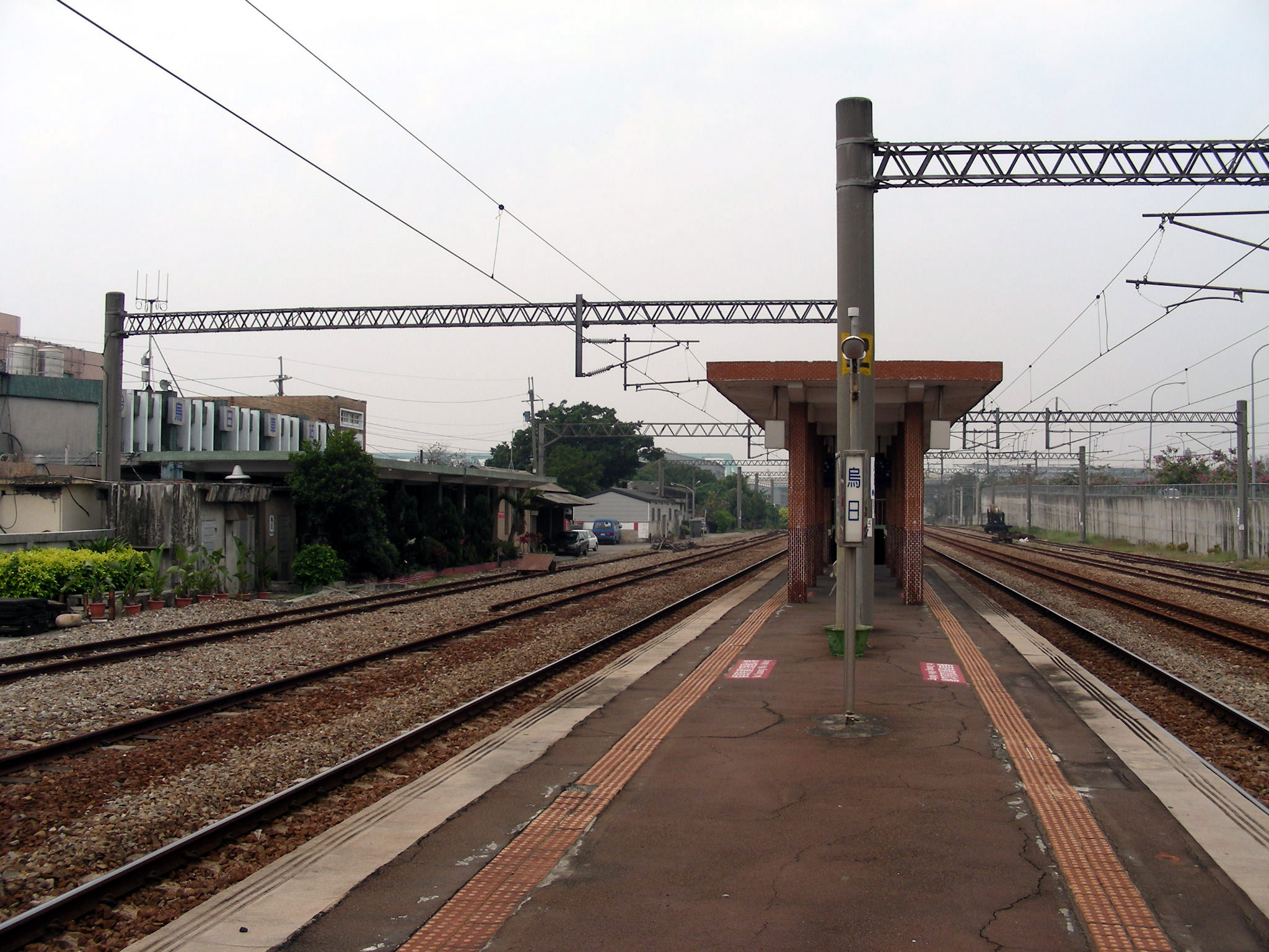 Taiwan "Wu Rih" Railway Station Plateform.